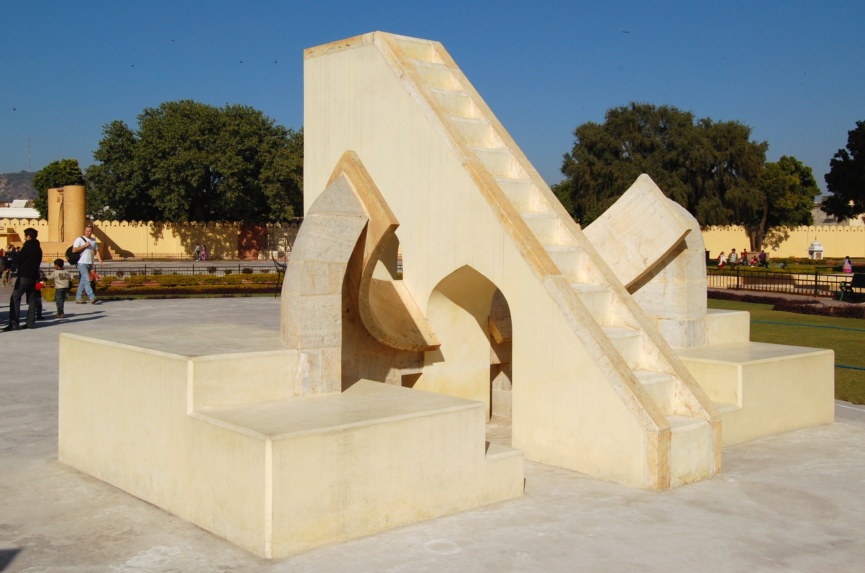 Device in Jantar Mantar, Jaipur, India.